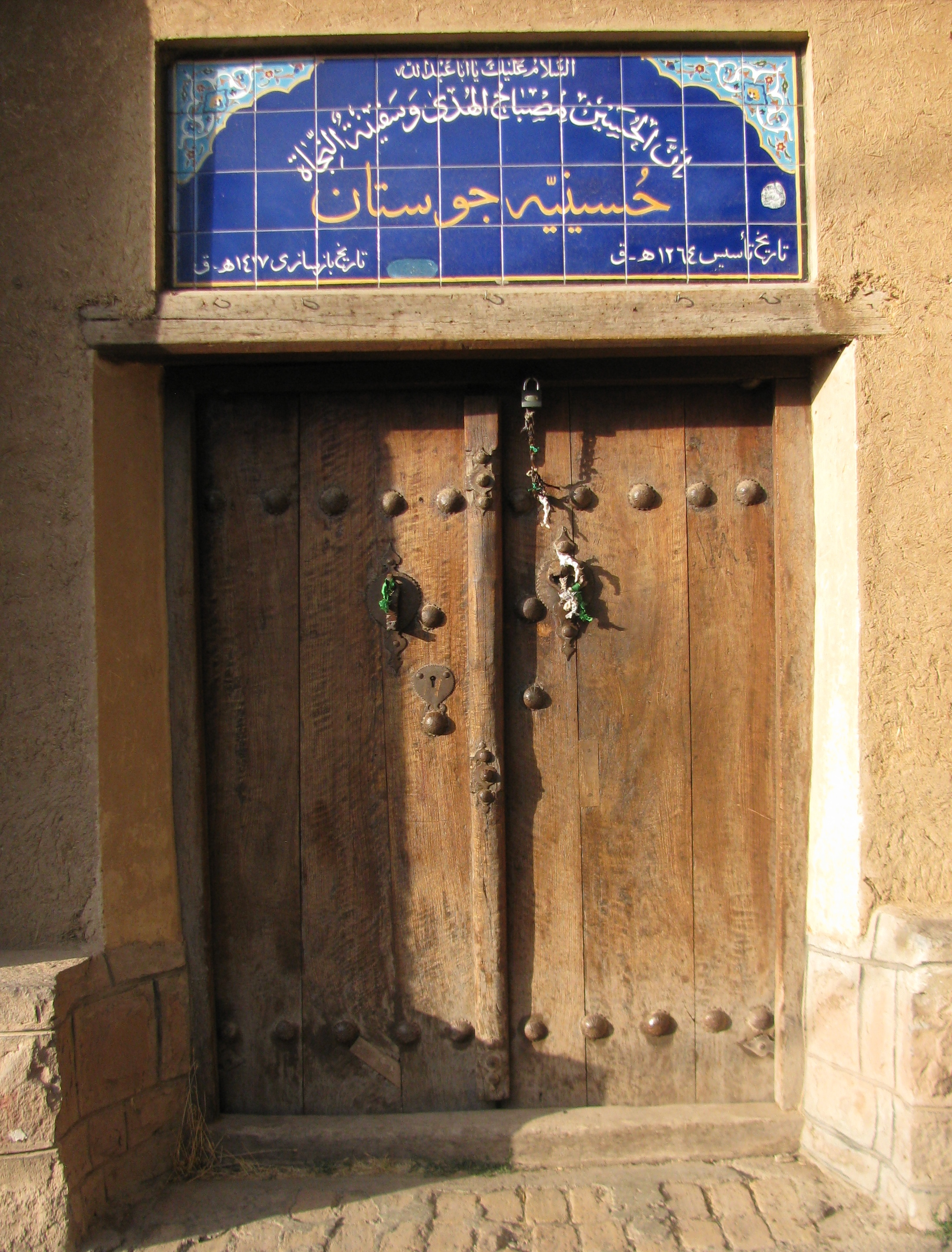 Door of Tekyeh in Taleqan/Alborz/Iran